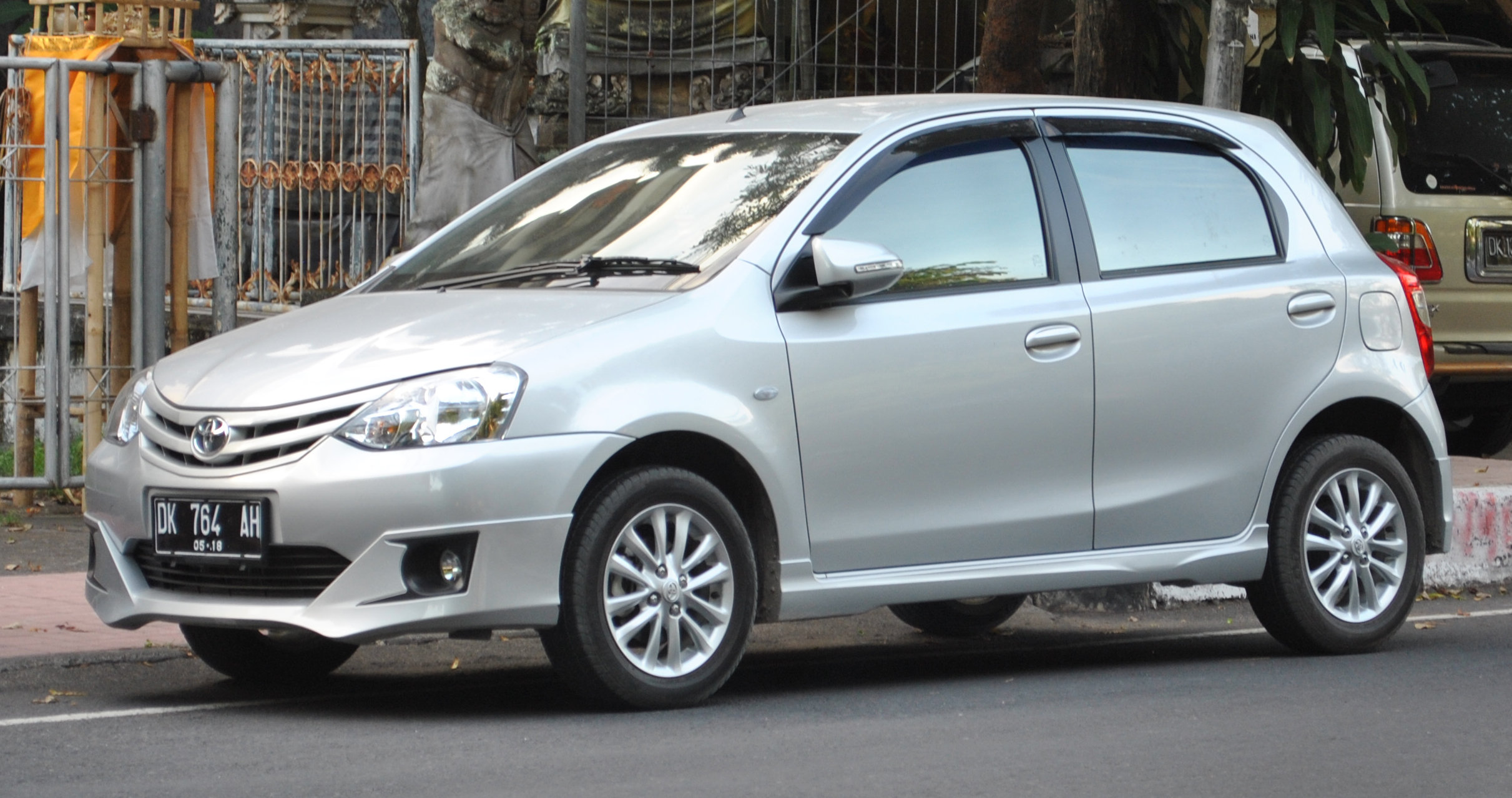 A silver Toyota Etios Valco hatchback photographed in Denpasar, Bali, Indonesia. This is the only type of Etios sold in Indonesia.